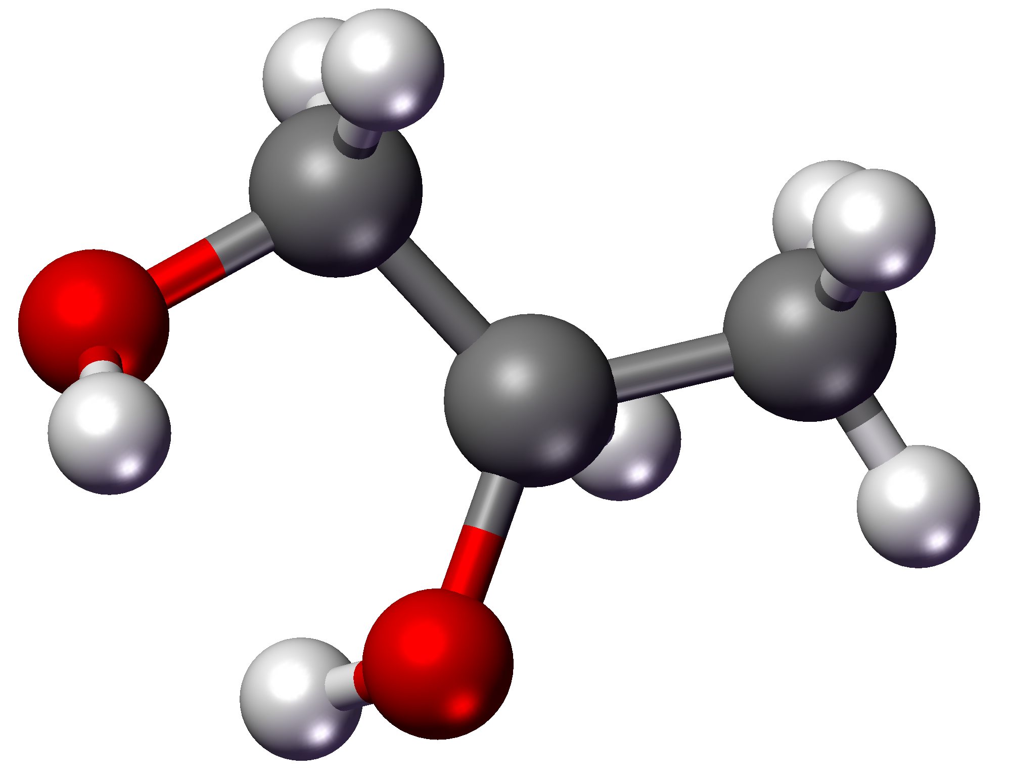 3D Stick-and-ball model of propylene glycol molecule. Prepared using Discovery Studio Visualizer 1.7 and GIMP 2.2